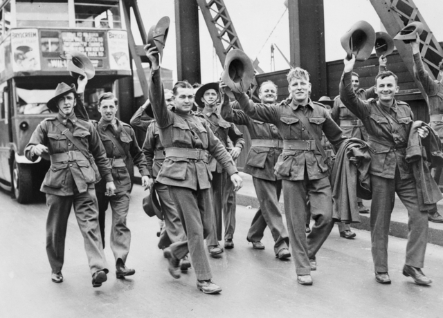 LONDON, ENGLAND. AUSSIE SOLDIERS WALKING AHEAD OF A LONDON DOUBLE DECKER BUS WAVE THEIR HATS TO SHOW THEIR DELIGHT AT BEING ON LEAVE.